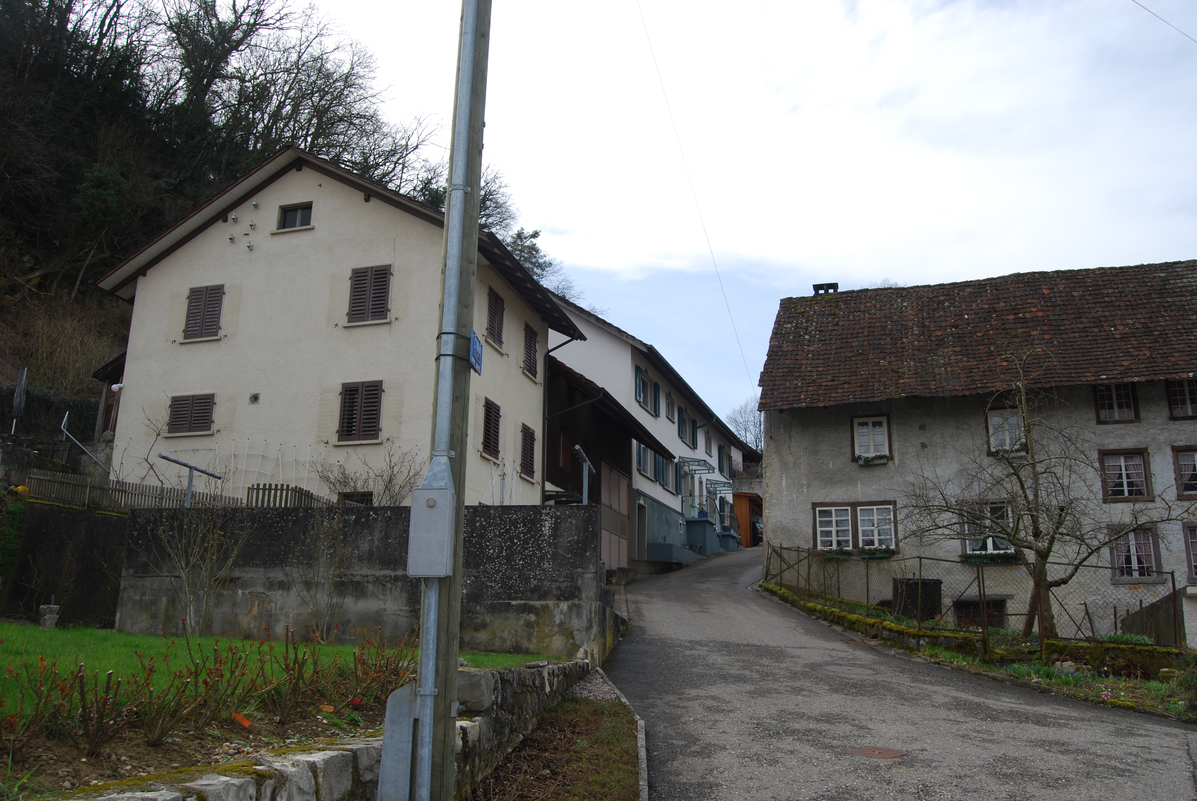 Mellikon, canton of Aargau, SwitzerlandEsperanto: Mellikon, Kantono Argovio, Svislando